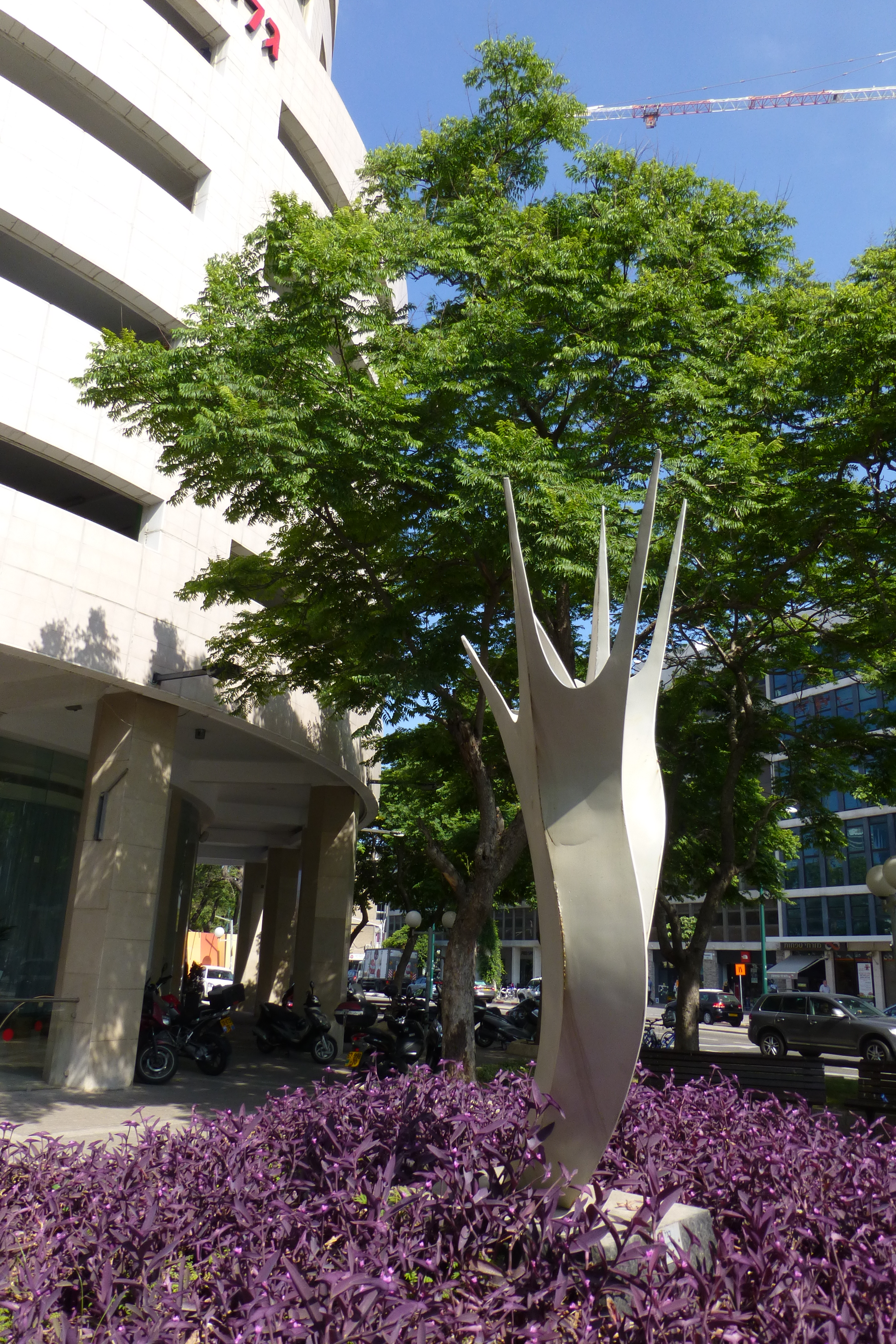 Begin Road, Tel Aviv-Yafo